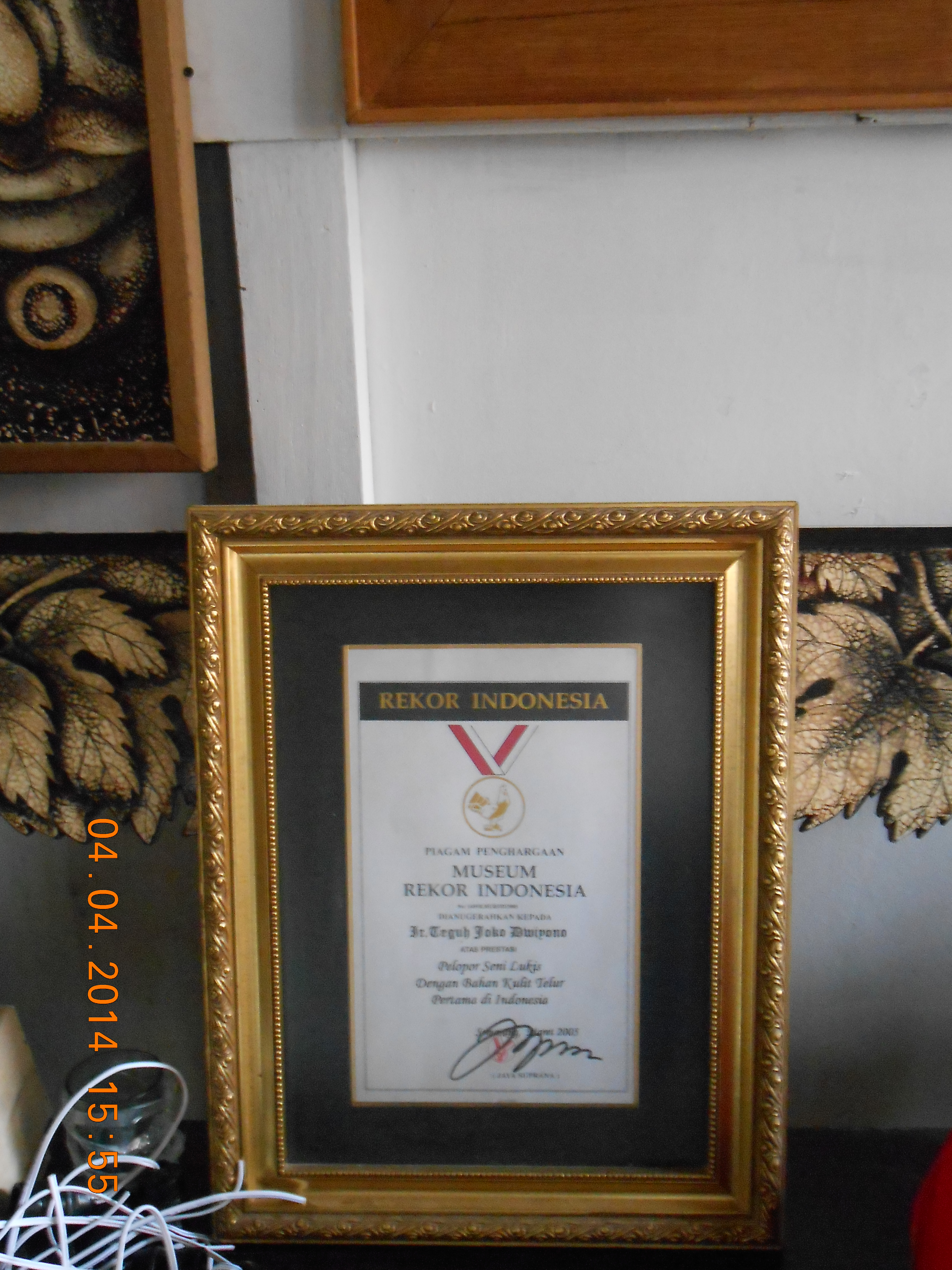 Contoh penghargaan atas prestasi seni